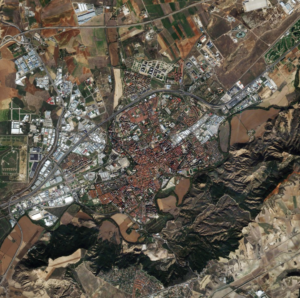 The diverse landscapes of the autonomous Community of Madrid in the heart of Spain are evident in this week’s image. The community and country’s capital city is visible near the centre of the image. Zooming in, we can see the Buen Retiro park just east of the city centre with its large, artificial pond. About 3.5 km due north sits the Santiago Bernabéu football stadium. Southeast of the stadium we can see another circular structure: the Las Ventas bullfighting ring. In the upper left corner of the image is the El Pardo mountain and protected natural park, which is popular for mountain biking. The other areas surrounding Madrid are blanketed with agricultural structures. East of the city are large fields along the Jarama river, and more areas of agriculture appearing brown further east still. This image, also featured on theEarth from Space video programme, was taken by the Sentinel-2A satellite on 16 November 2015. Launched in June 2015, Sentinel-2 can map changes in land cover such as forest, crops, grassland, water surfaces and artificial cover like roads and buildings in cities. Early results from the mission on mapping changes in land cover are expected to be presented at the upcoming Living Planet Symposium, held in Prague in May. The event brings together scientists and users to present their latest findings on Earth’s environment and climate derived from satellite data.